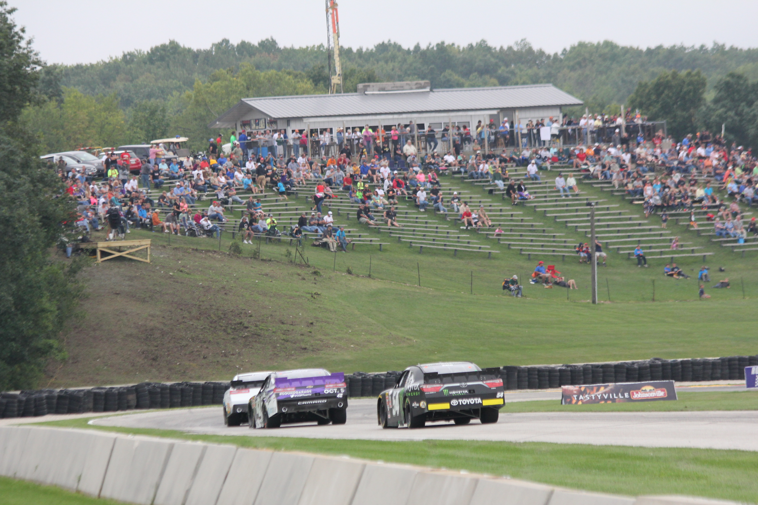 Several NASCAR Xfinity Series cars preparing to turn right while entering in Turn 7 at Road America.